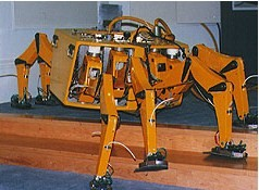 picture of robug 3